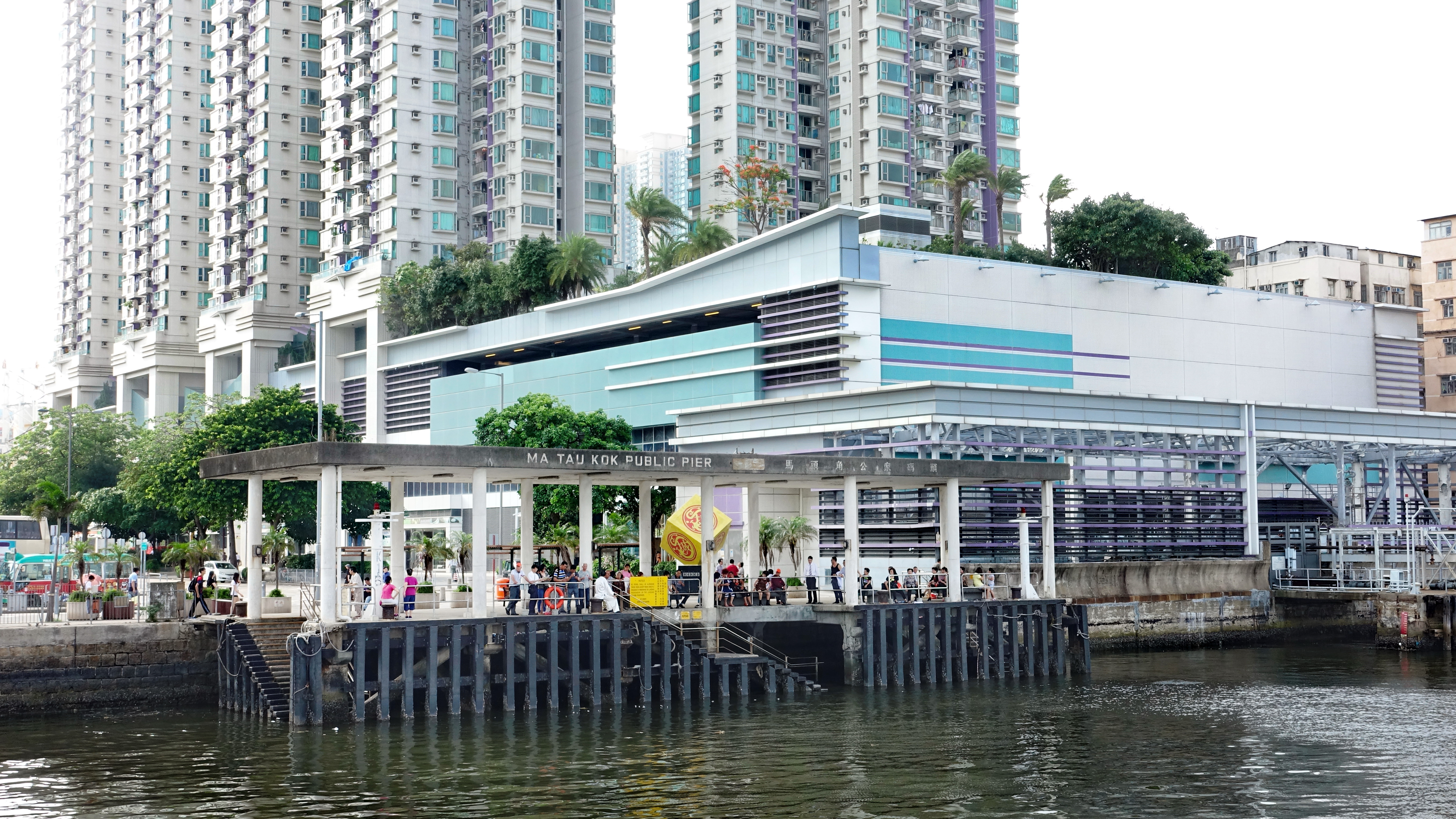 Ma Tau Kok Public Pier, Kowloon, Hong Kong.